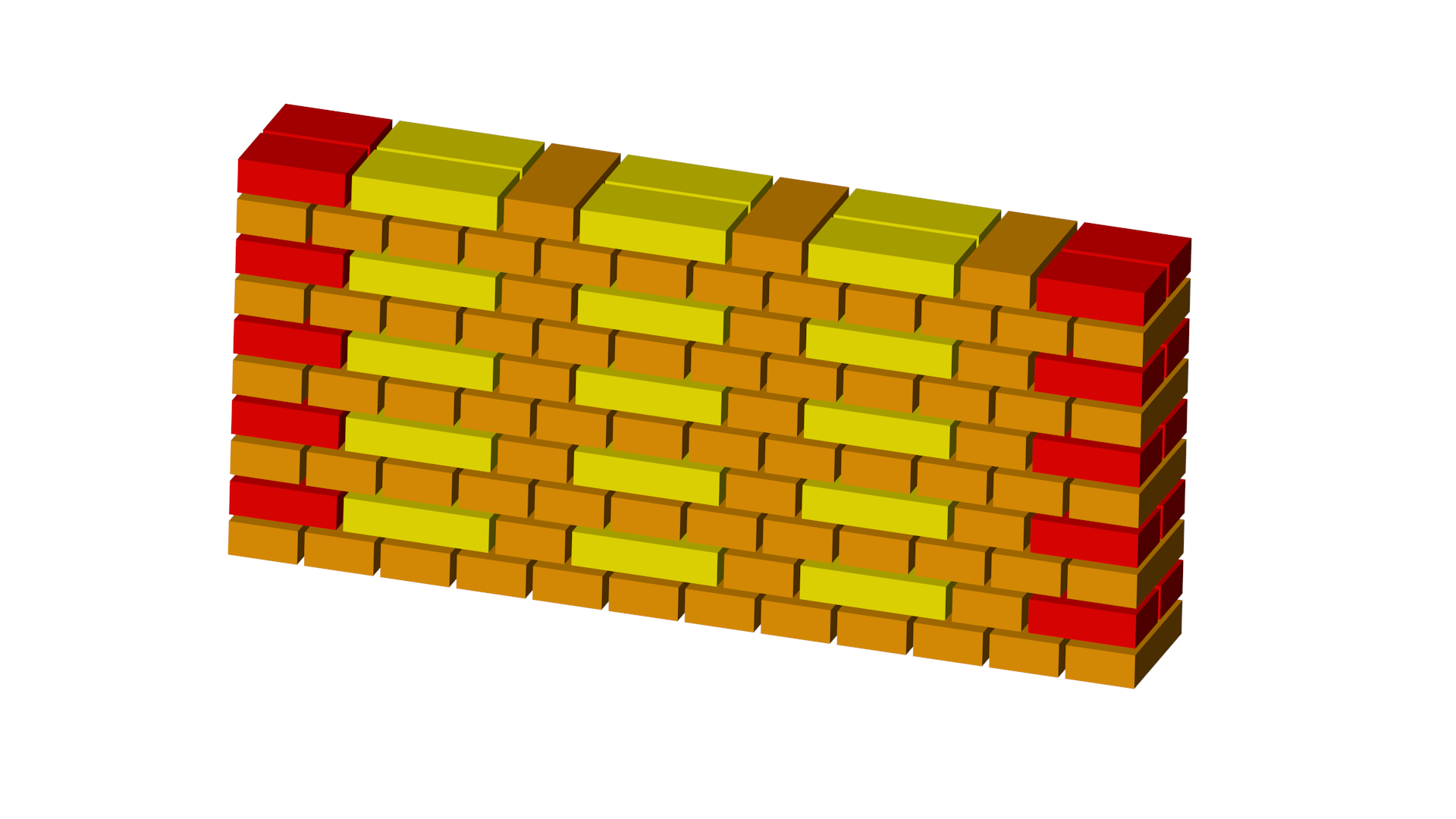 Dutch bond